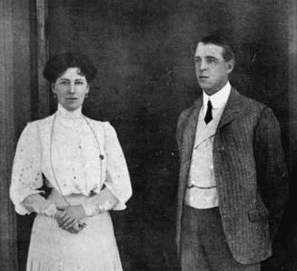 Governor and Lady Chelmsford, Governor of New South Wales 1909-1913